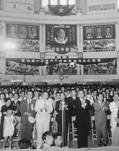 The 33rd anniversary ceremony of JCP(Japanese Communist Party)